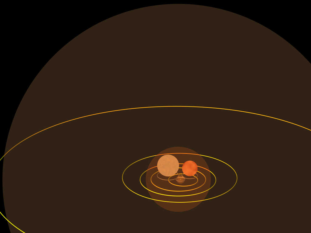 Comparison of size of Betelgeuse (largest dull-red sphere inside Jupiter's orbit) and R Doradus (red sphere shown inside Earth's orbit) together with the orbits of Mars, Venus and Mercury and the stars Rigel and Aldebaran from Image:1e10m comparison Rigel, Aldebaran, and smaller - antialiased no transparency.png, to scale. The faint yellow sphere centred on the Sun has a radius of one light-minute. The yellow ellipses represent the orbits of each planet. No transparency version.